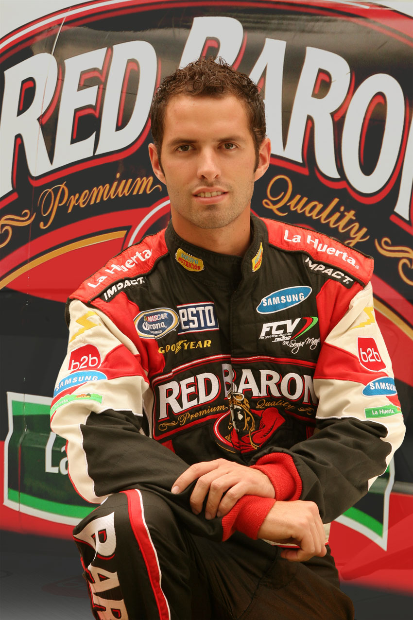 Jorge Arteaga (a Mexican racing driver from Aguascalientes) posing for a promotional shot.